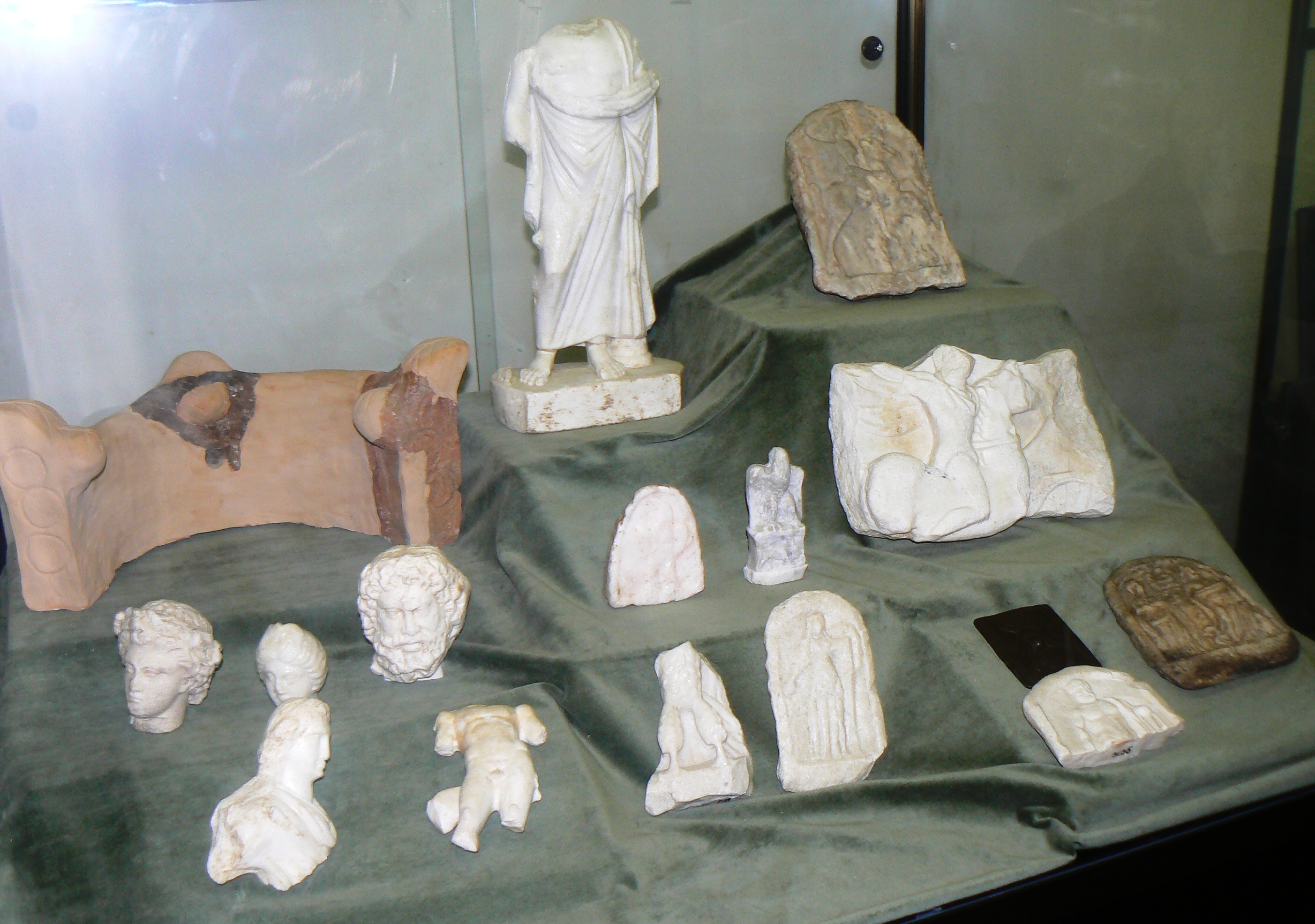 Exhibits of the History Museum of Nova Zagora, Bulgaria - a terracotta altar and examples of small stone sculpture, dated to 1-4 century AD